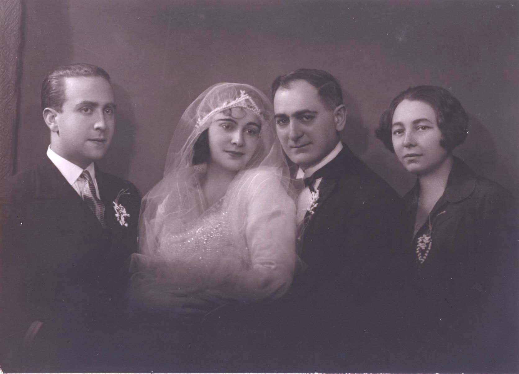 Wedding portrait of Bulgarian writer Mihail Kremen and his wife Bogdana, together with Chilean piano player Claudio Arrau (left) and Czech-Bulgarian piano player Panka Pelischek (right)